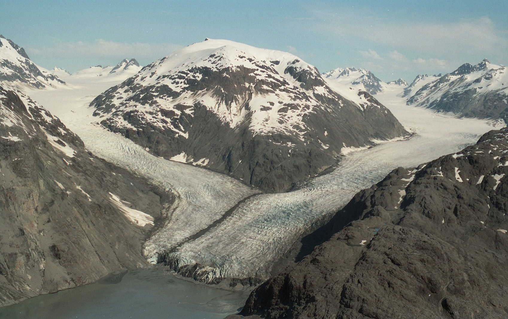 Aerial View of Morse Glacier (on left) and Muir Glacier, merging just above the tidal flat terminus.